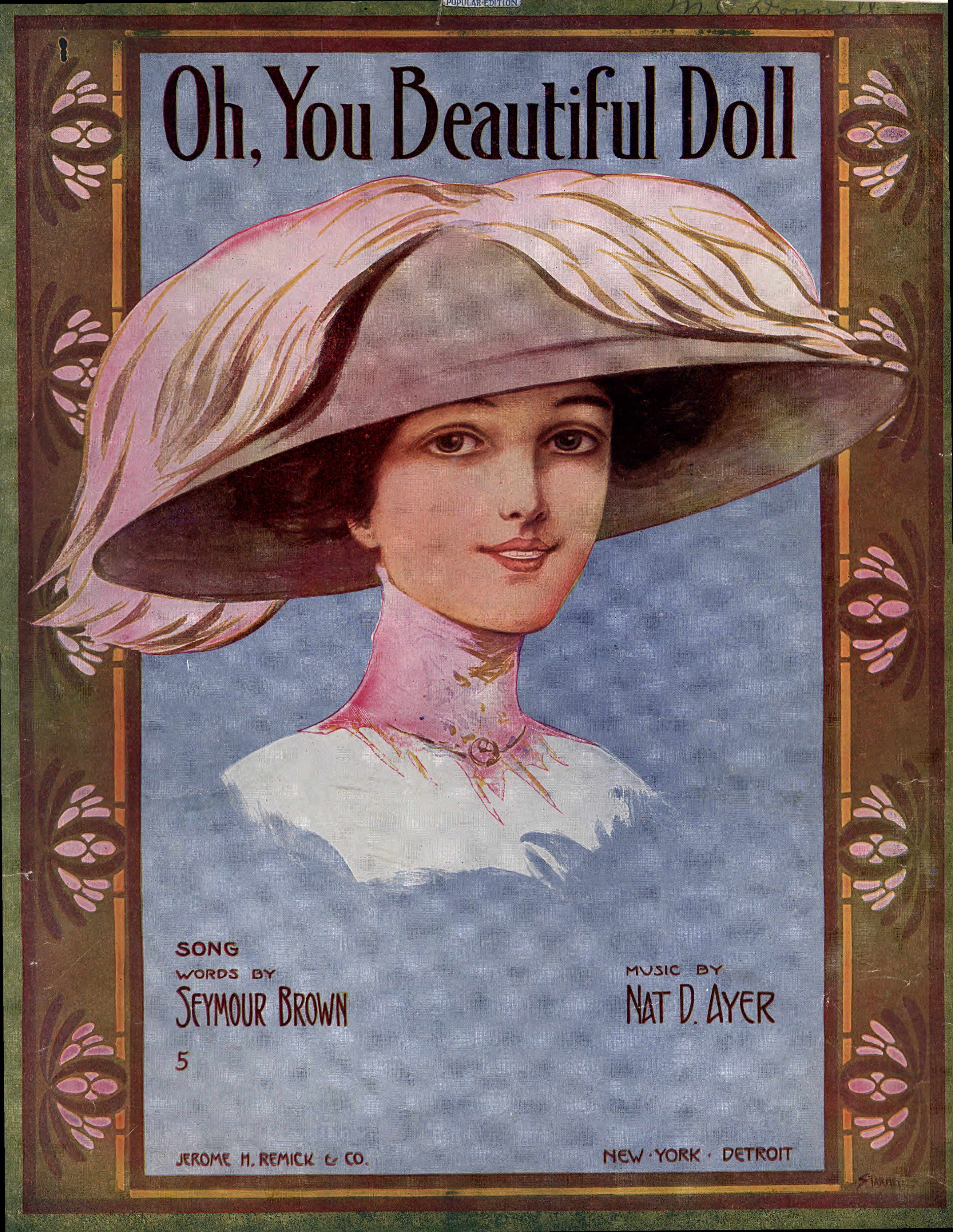 "Oh, You Beautiful Doll" sheet music cover. Nat D. Ayer/Seymour Brown. New York: Jerome H. Remick & Co. (1911)